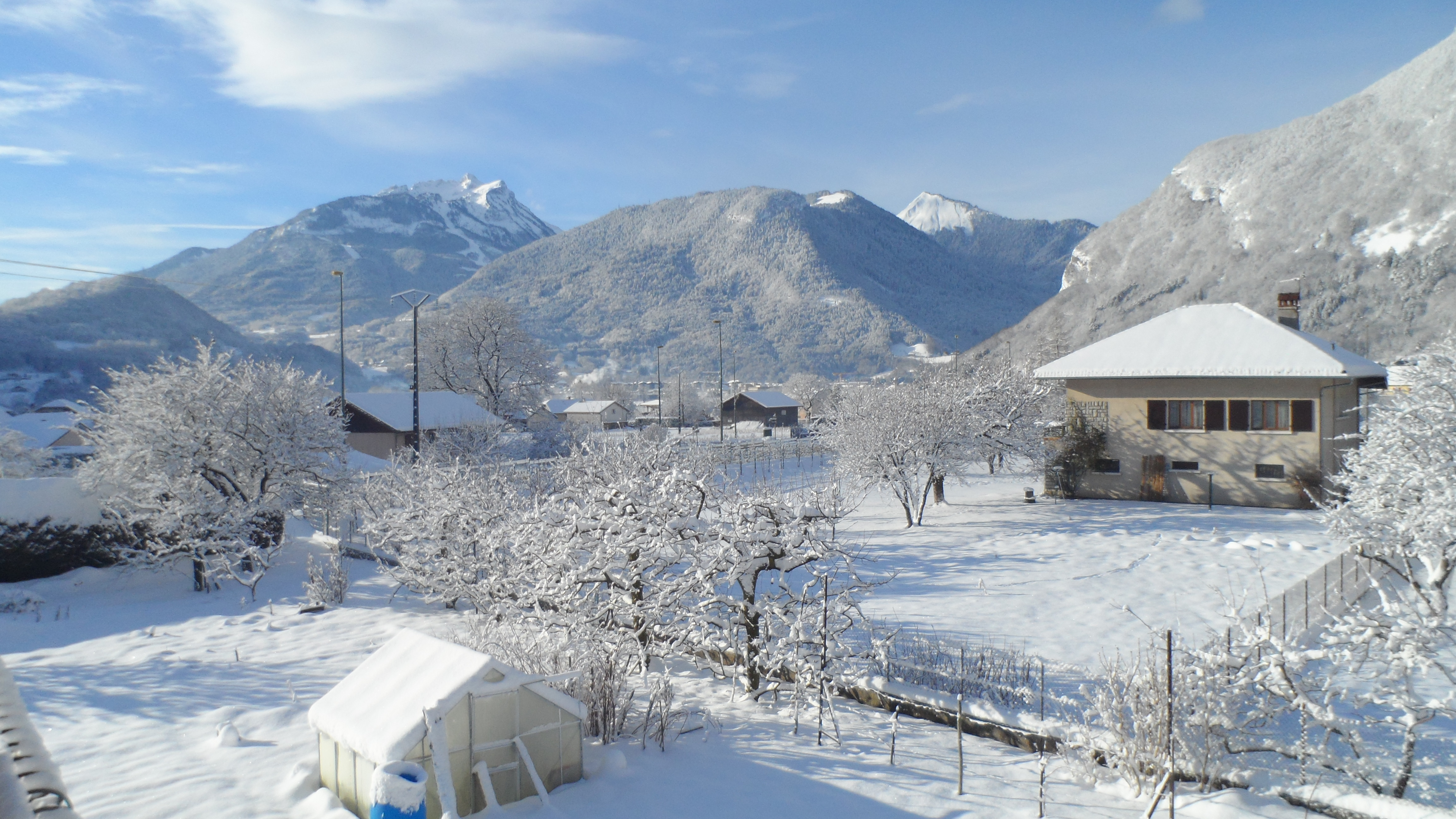 Saint Ferréol in January 2015, south view